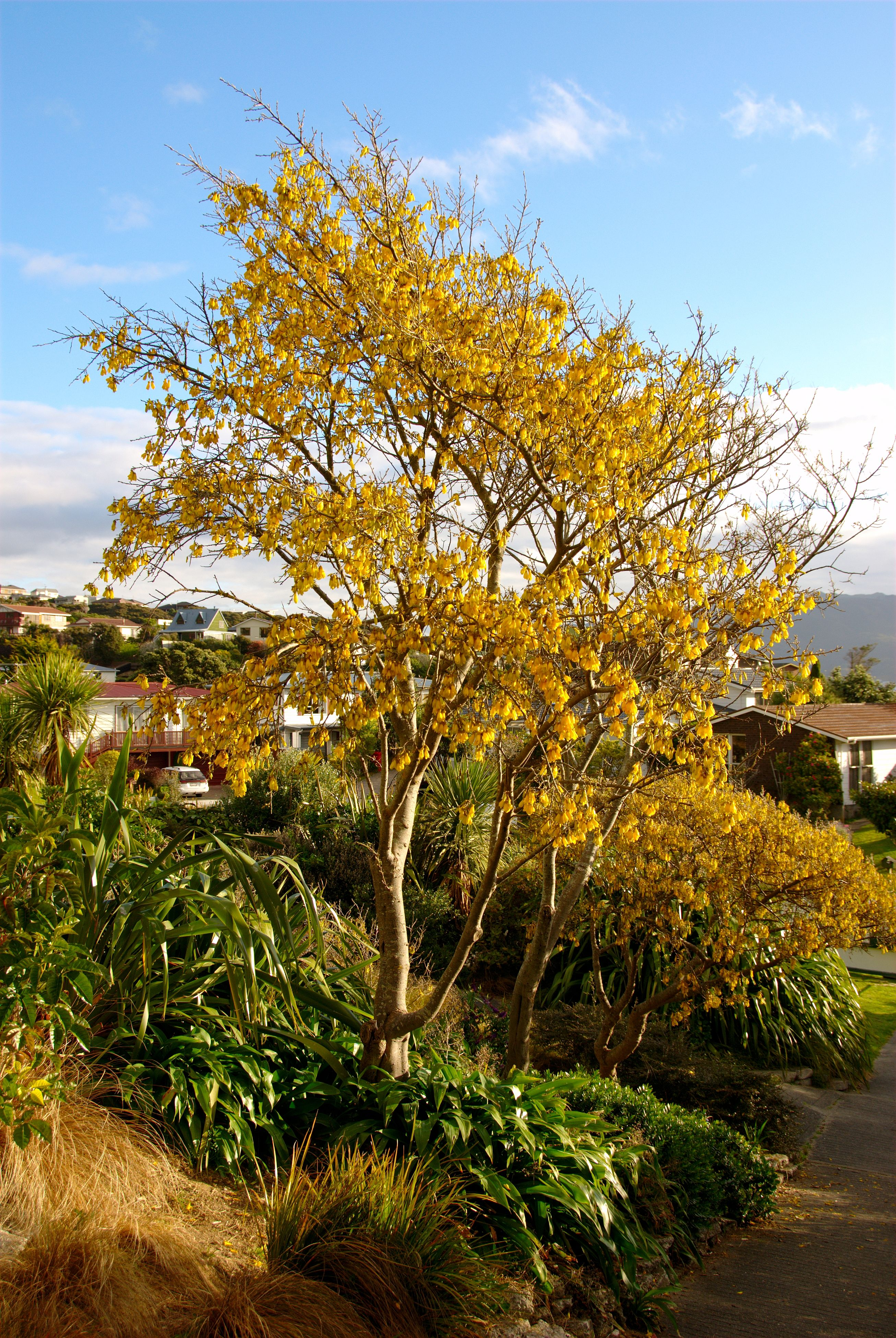 A Kowhai tree (Sophora microphylla ) in full bloom prior to the leaf buds emerging. This was taken at Papakowhai School.